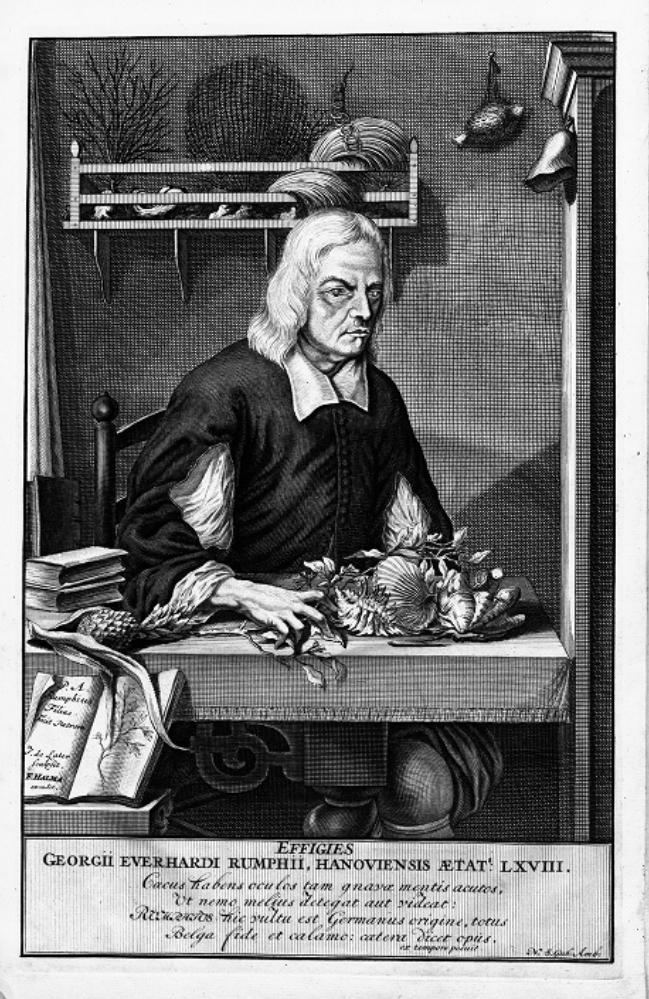 Portrait from Herbarium Amboinense